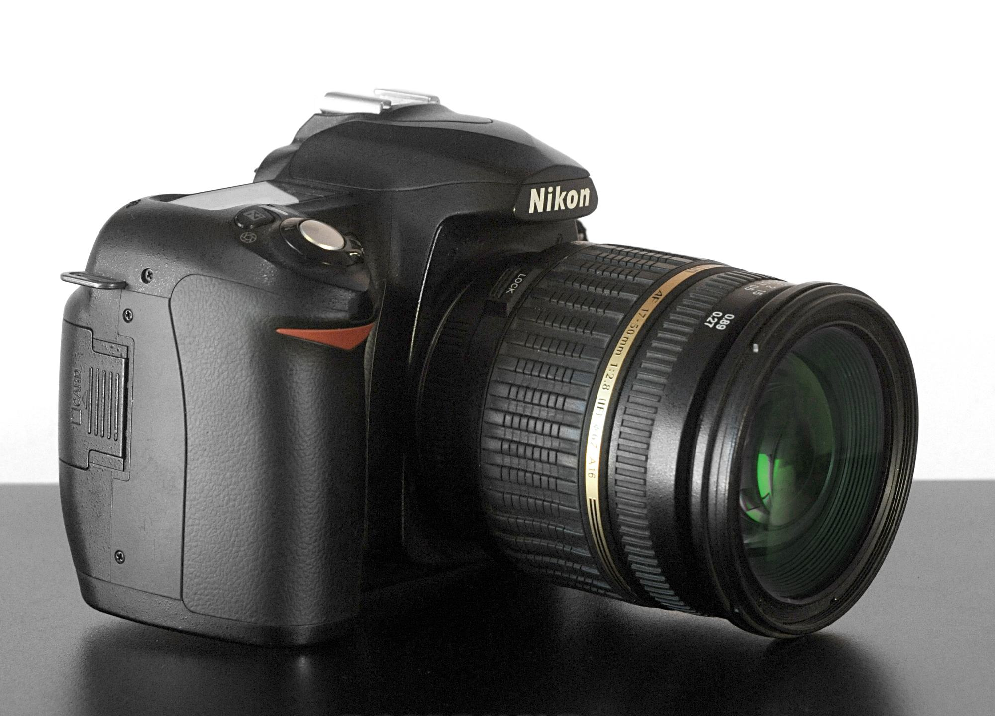 Nikon D50 with Tamron 17-50mm f2,8